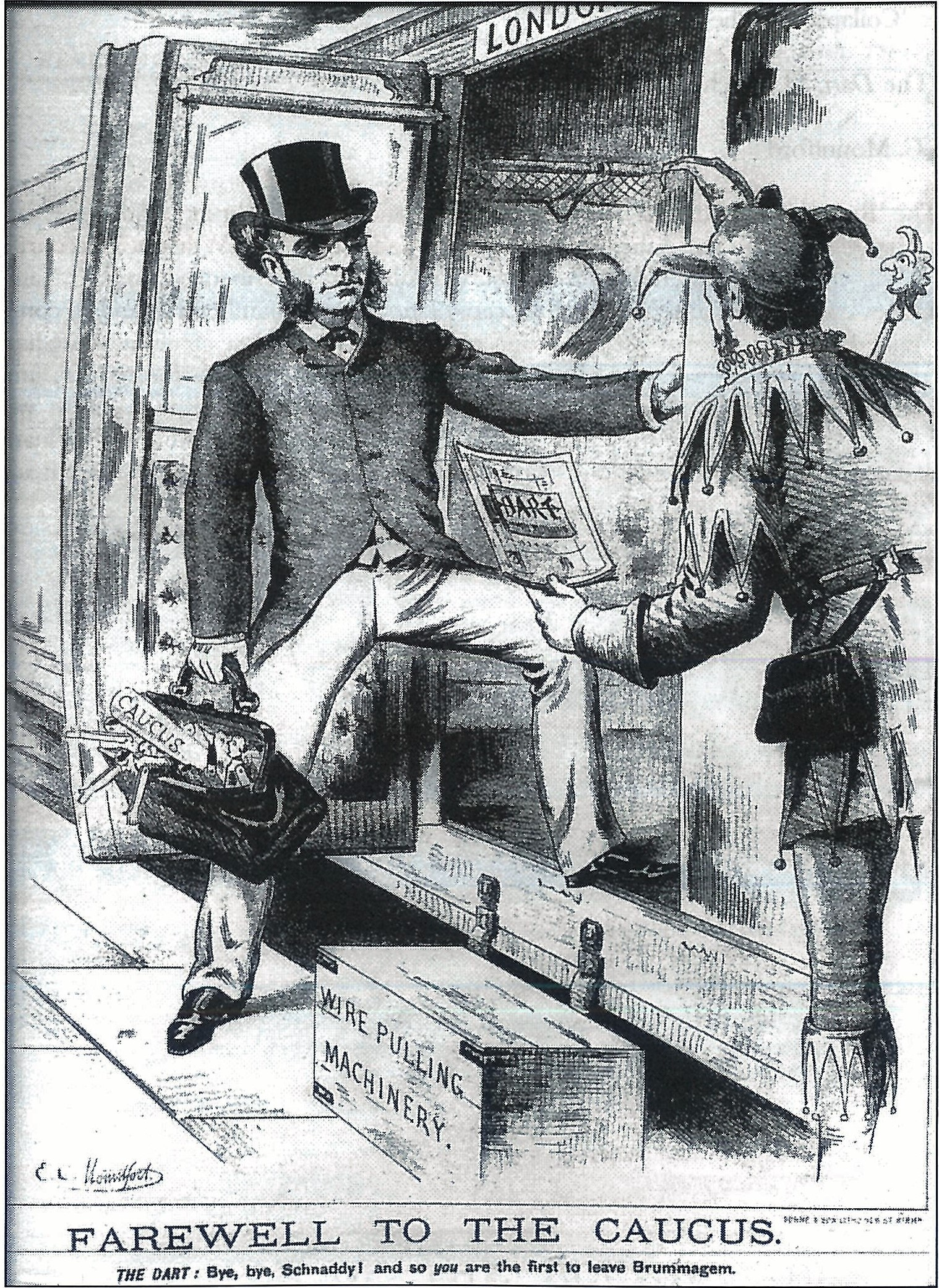 "Farewell to the Caucus". Cartoon of Francis Schnadhorst (1840-1900) leaving Birmingham in 1886, following the split in the Liberal Party over Irish Home Rule. By E. C. Mountford; published in 'The Dart', 24 Sept 1886